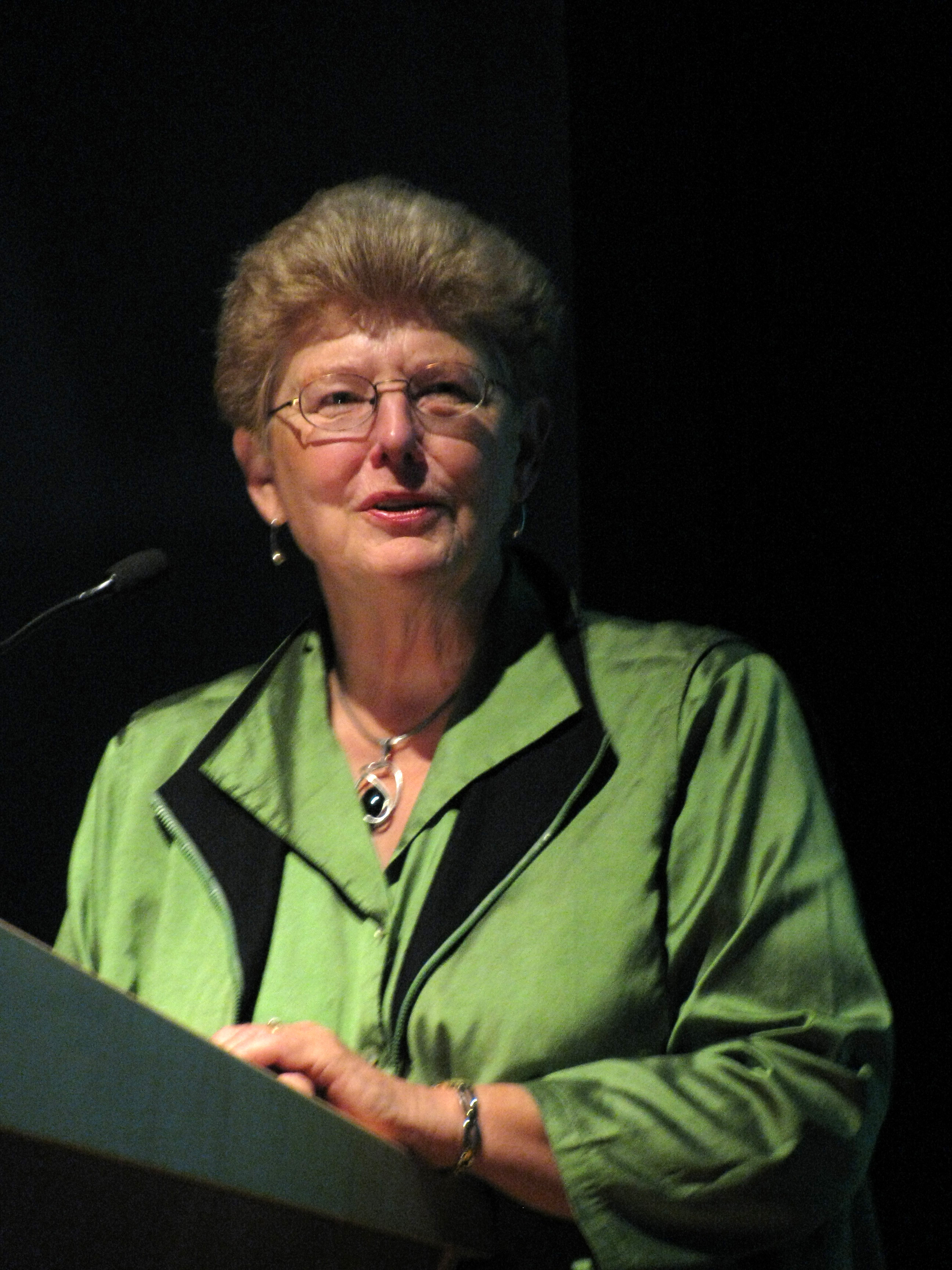 Katherine Hayles speaking at the University at Buffalo's Digital Humanities Initiative symposium